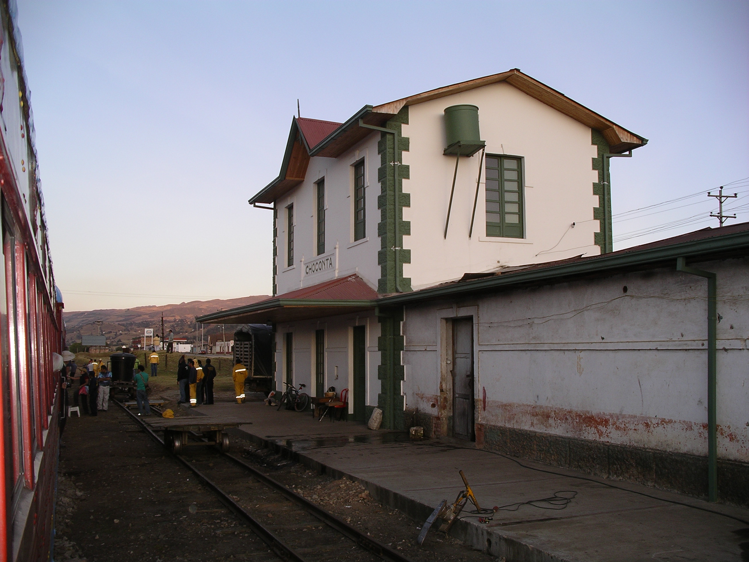 Choconta train station, north-east of Bogota, Colombia